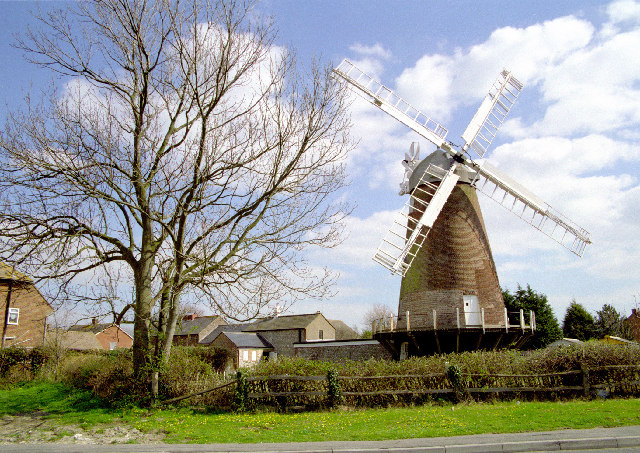 Photograph of Polegate windmill